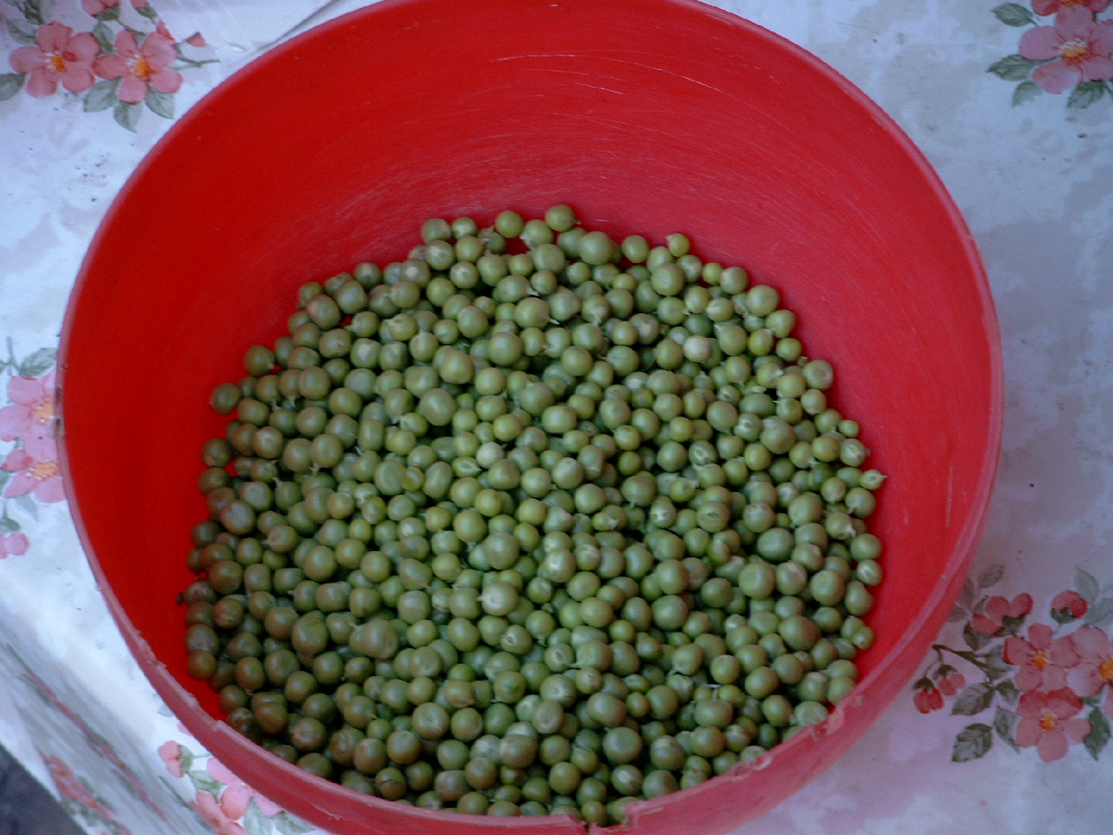 fresh green peas